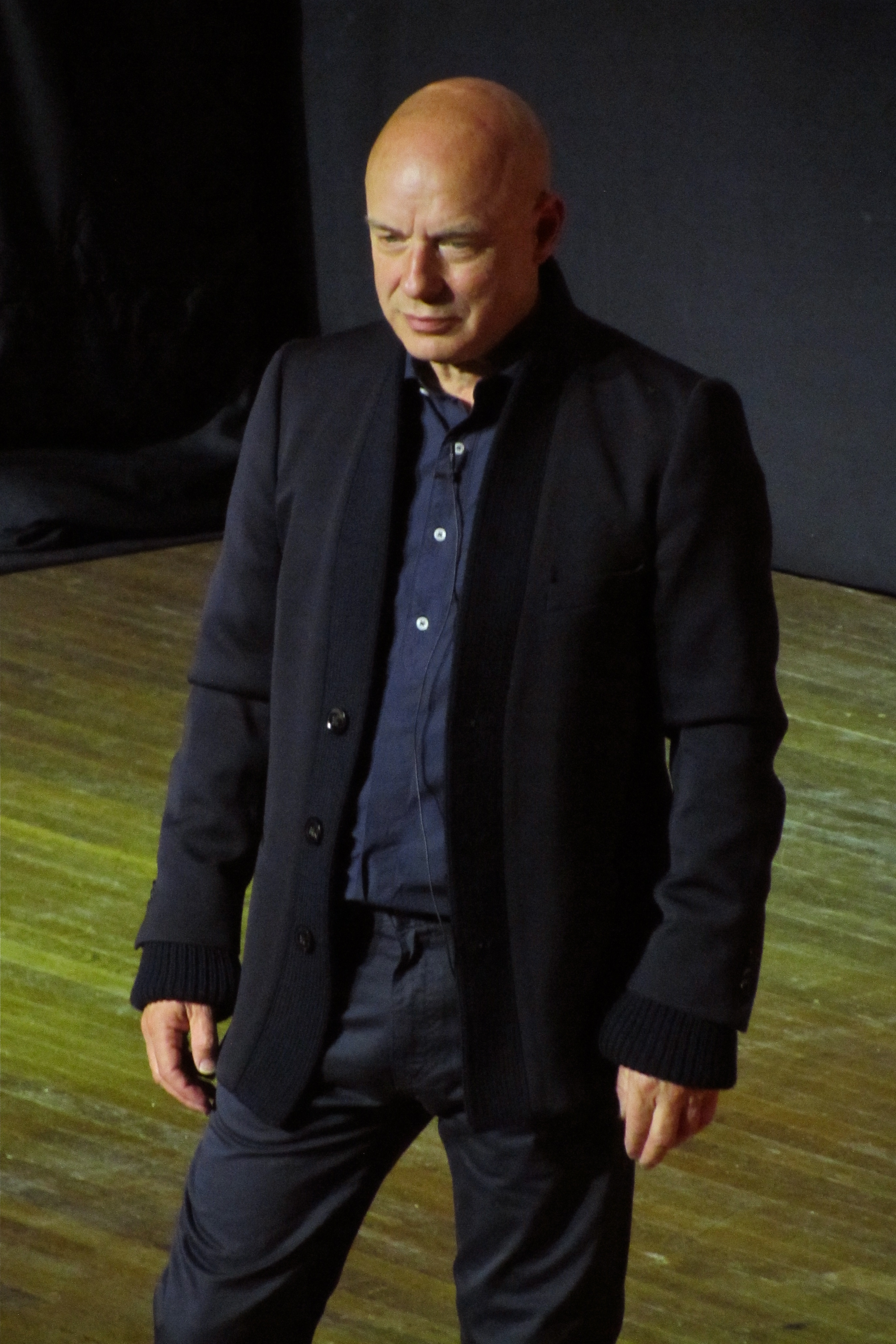 Brian Eno at his "Illustrated Talk" lecture at MoogFest 2011.